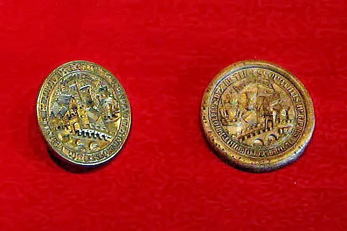 Stadtmuseum Rapperswil (SG) : Rudolf IV, Duke of Austria's City seal with Veduta of Rapperswil town and bridge.